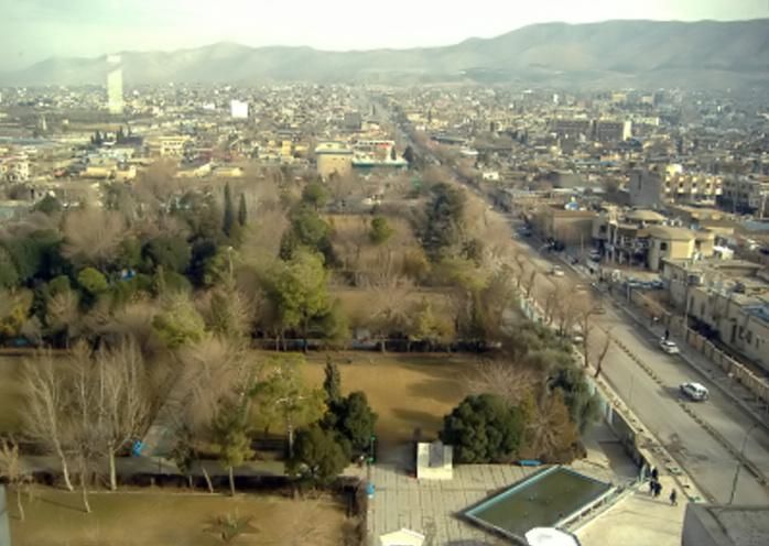 View of the city